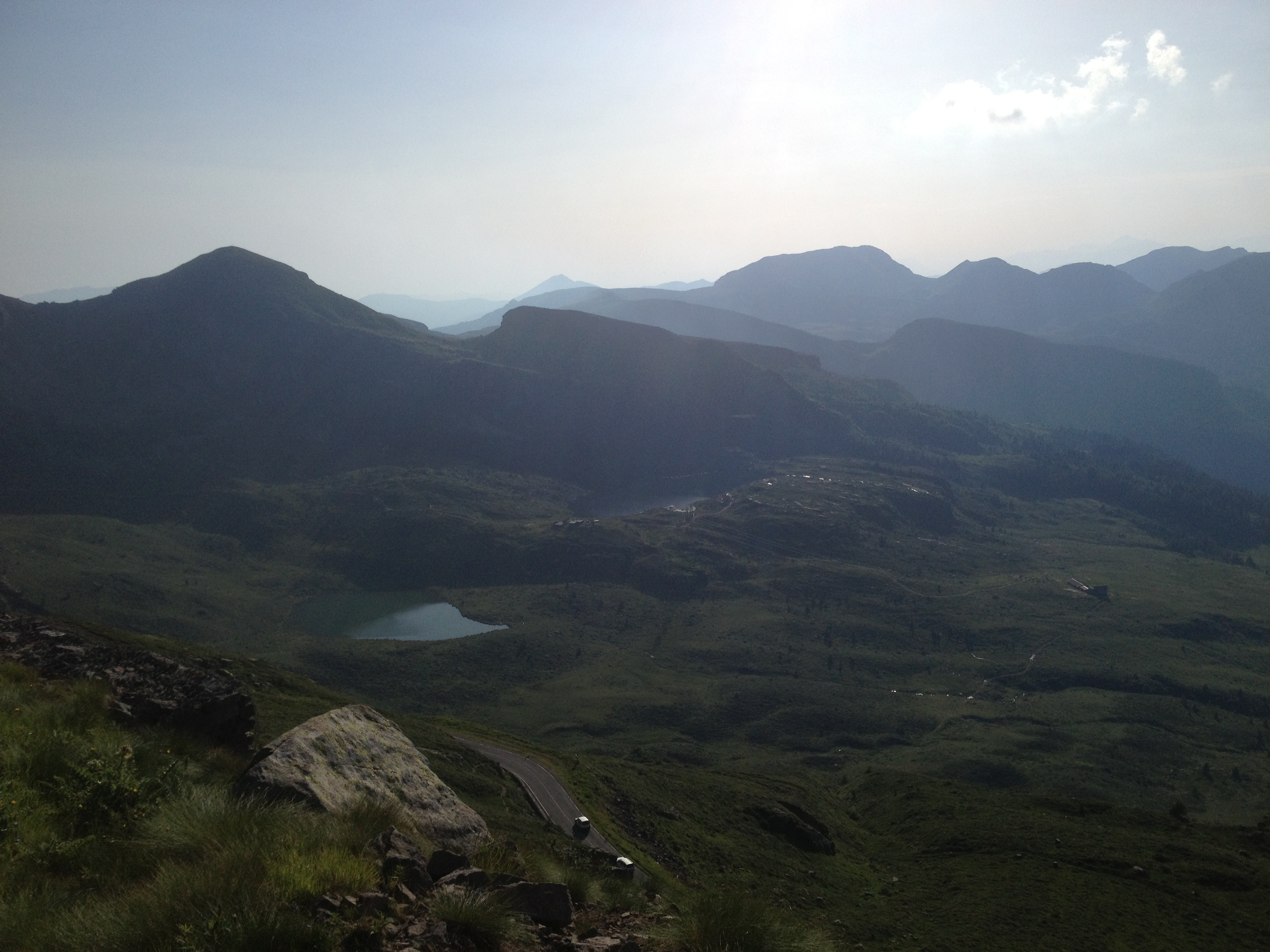 Laghetti Ravenola (dal Dosso dei Galli)